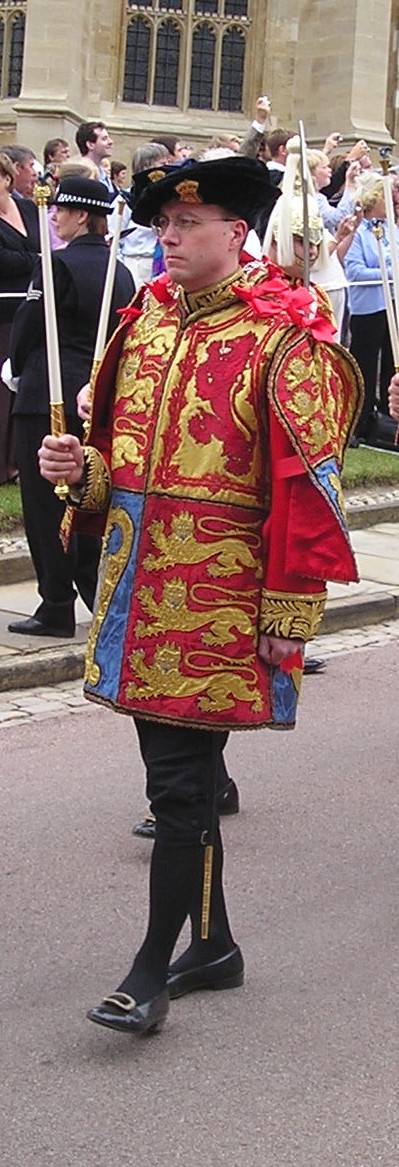 Clive Cheesman, Rouge Dragon Pursuivant, in procession to St George's Chapel, Windsor Castle for the annual service of the Order of the Garter.